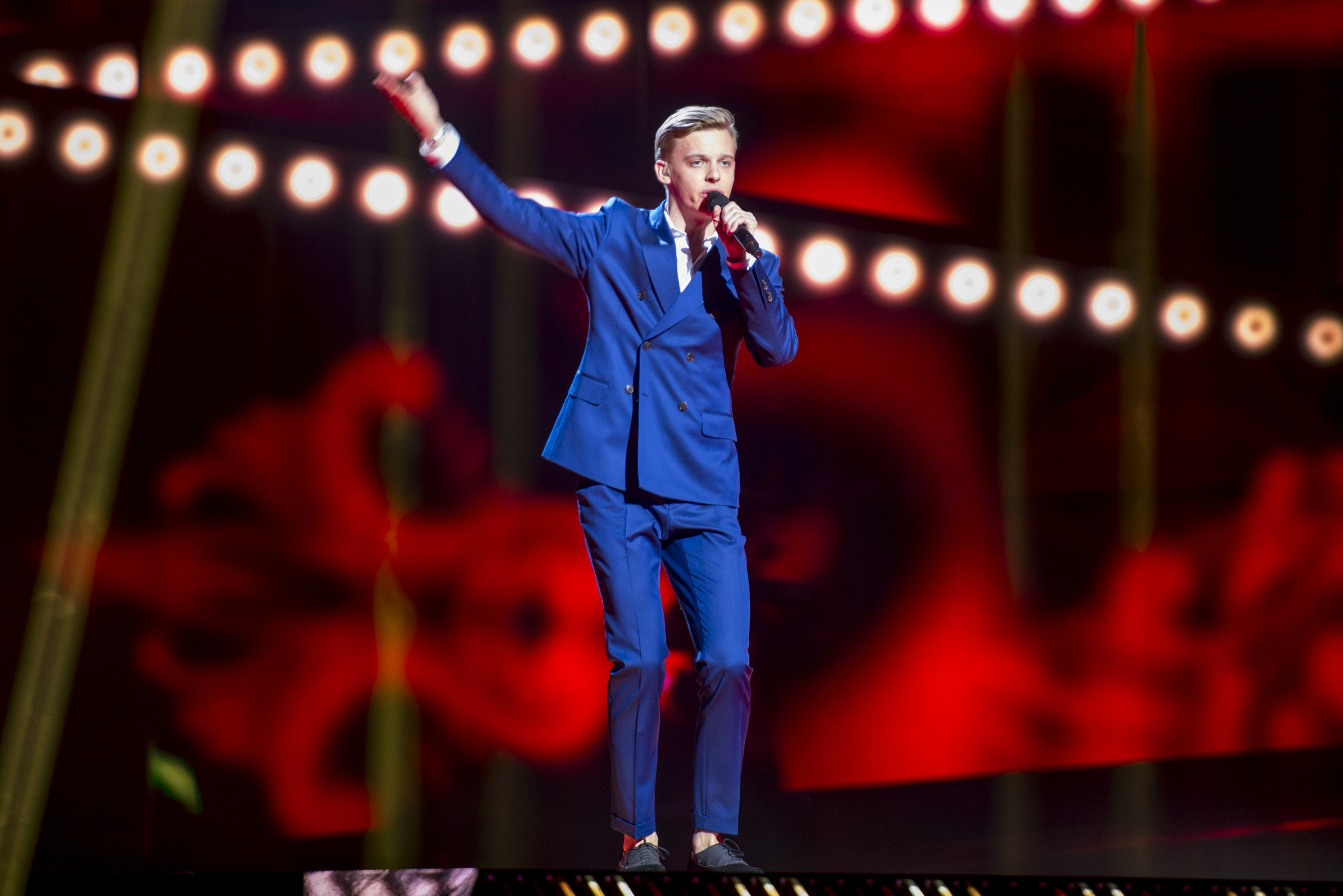 Jüri Pootsmann representing Estonia with the song "Play" during a rehearsal before the first semi final of the Eurovision Song Contest 2016 in Stockholm. (Help translate this text)